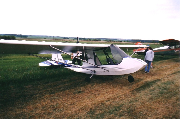 I took this photo of 1994 model Quad City Challenger II C-IWYN ay Lacombe in 1998.